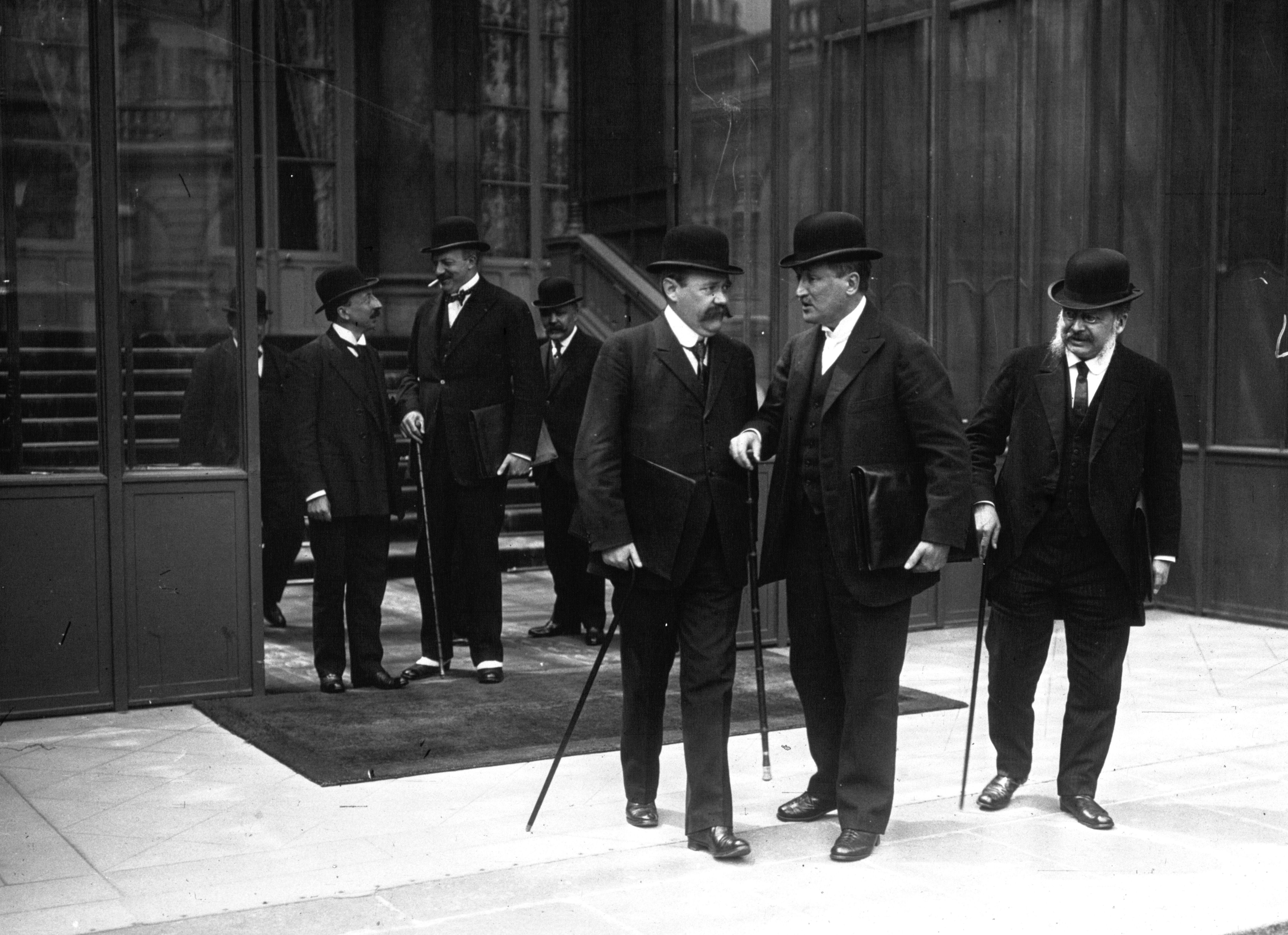 Council of Ministers at the Élysée Palace in 1921. From left to right:Yves Le Trocquer, Laurent Bonnevay, Lucien Dior, André Maginot, Léon Bérard, Louis Loucheur.